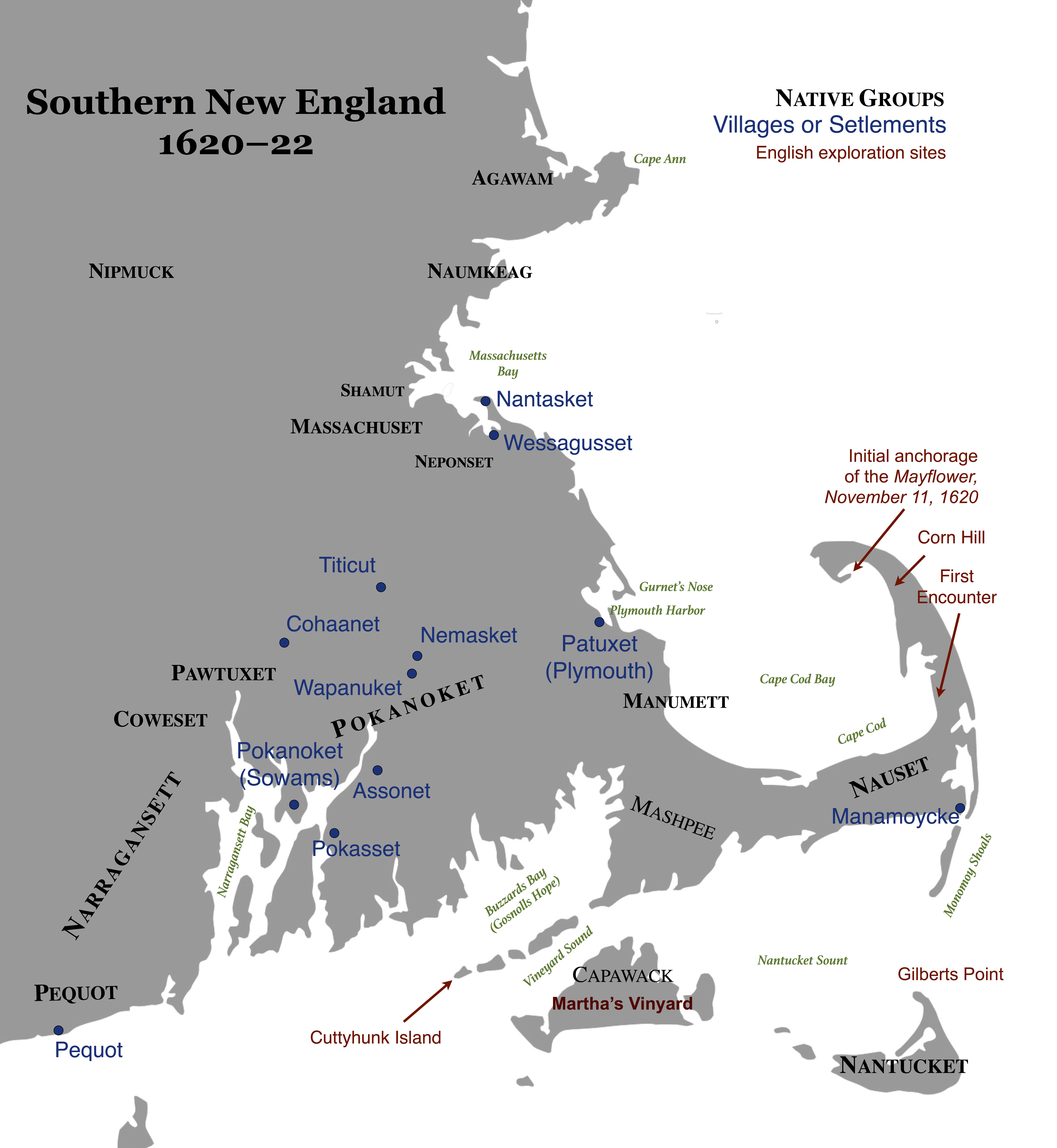 Map of Southern New England, 1620–22 showing Native peoples and settlements